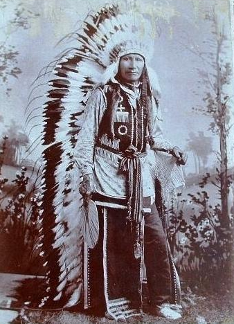 Chief American Horse, Wild Wester with Buffalo Bill